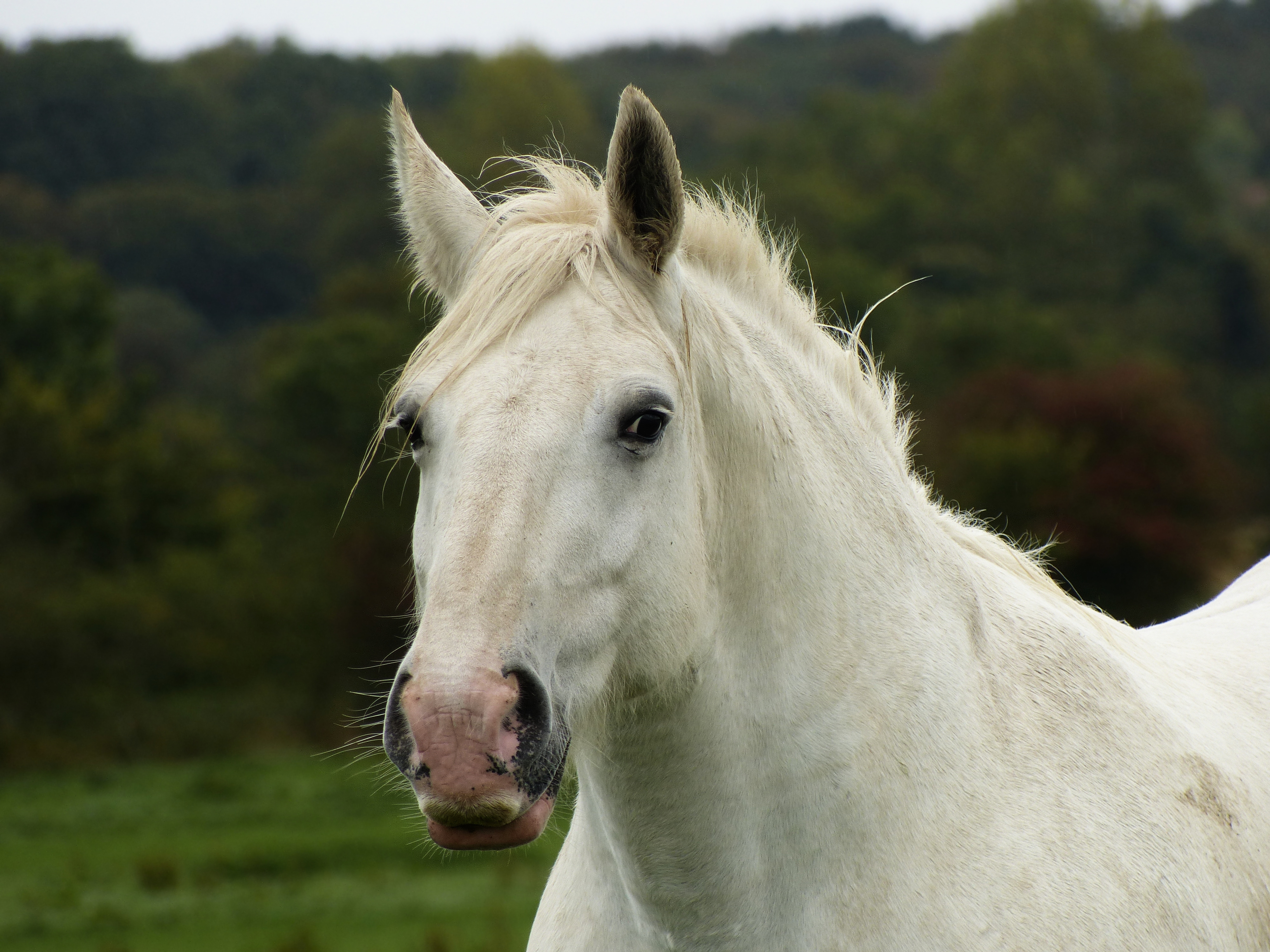 Boulonnais mare, Samer, France